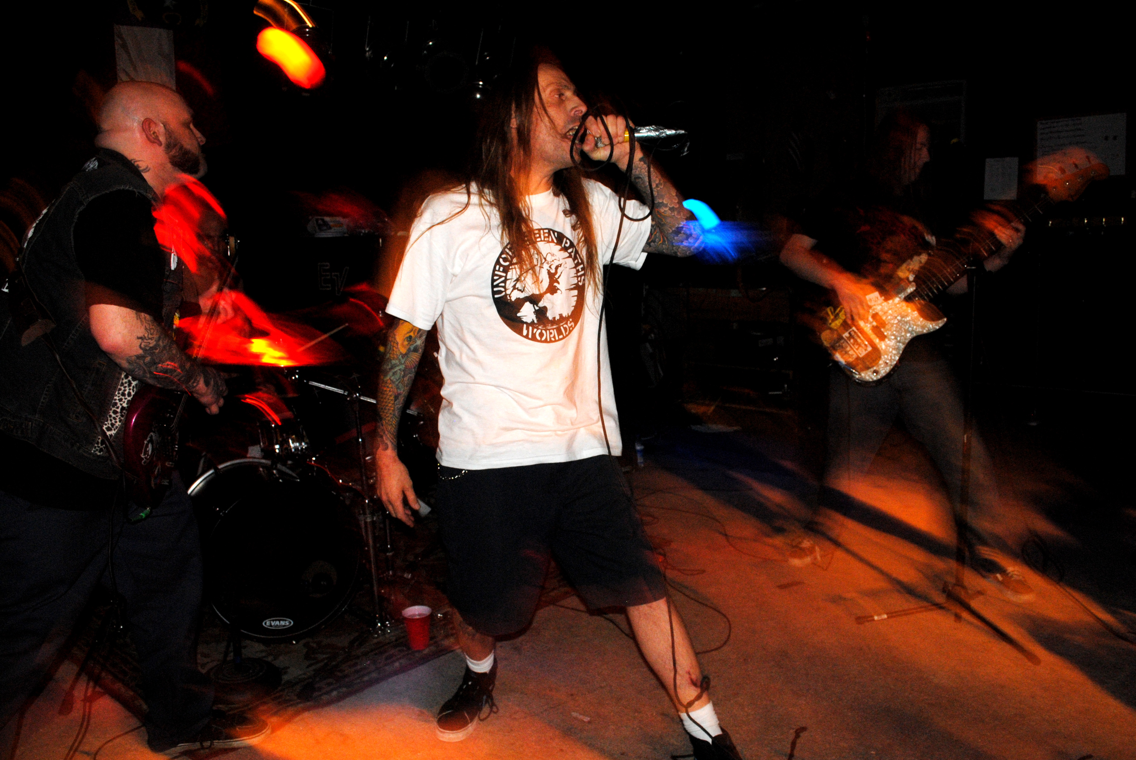 Capitalist Casualties taken 5/18/2010 @ The Soap Box in Wilmington, NC